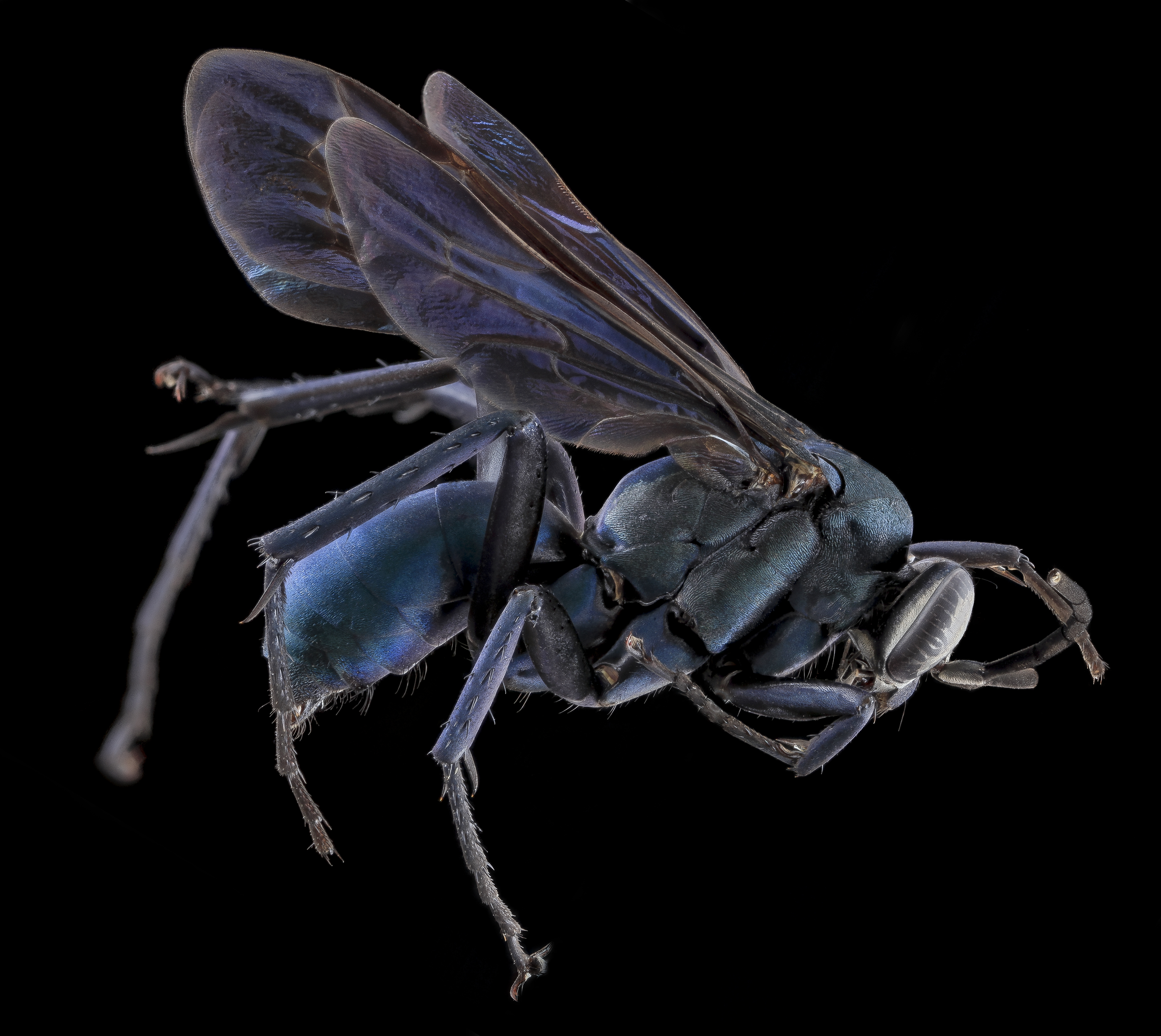 Anoplius amerthystinus, male. There is something about the oily iridescence of these spider wasps that I find particularly attractive, the light has to hit the wings just right, like in this picture, and the subtly brewed stained glass opalescence that come through are impossible to replicate Collected on the Guantanamo Naval Base in Cuba, photographed by Aaman Mengis Canon Mark II 5D, Zerene Stacker, Photographer: Sam Droege, 65mm Canon MP-E 1-5X macro lens, Twin Macro Flash, F5.0, ISO 100, Shutter Speed 200